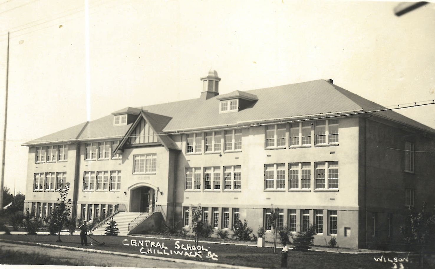 Central School 1940's